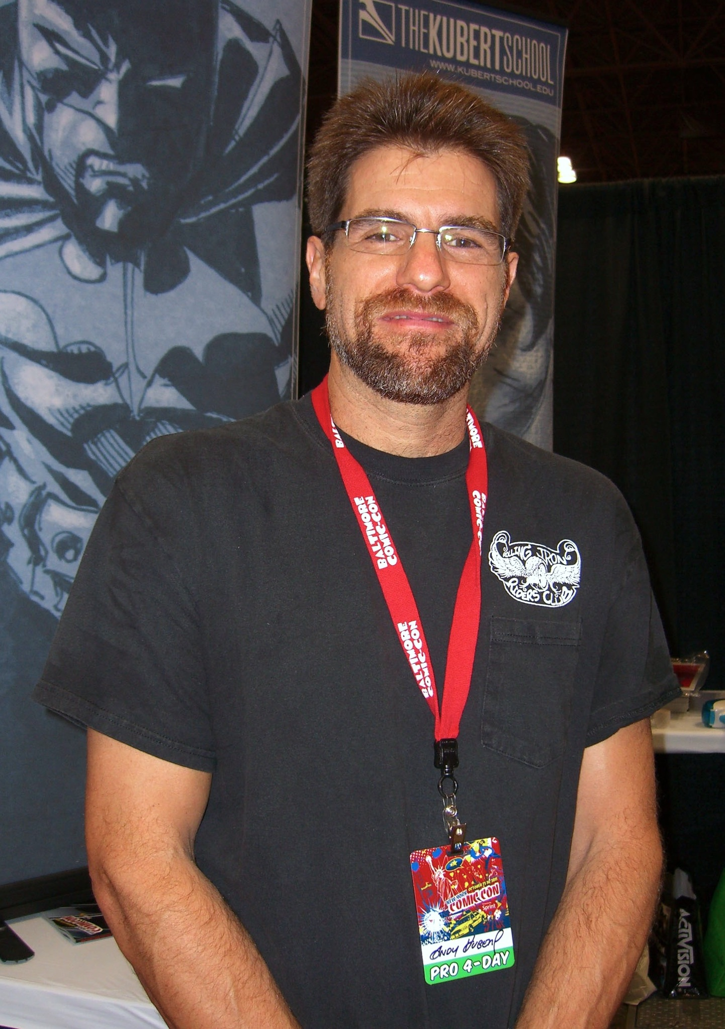 Comics creator Andy Kubert at the 2011 New York Comic Con, Friday, October 14, 2011. This photo was created by Luigi Novi. It is not in the public domain, and use of this file outside of the licensing terms is a copyright violation.